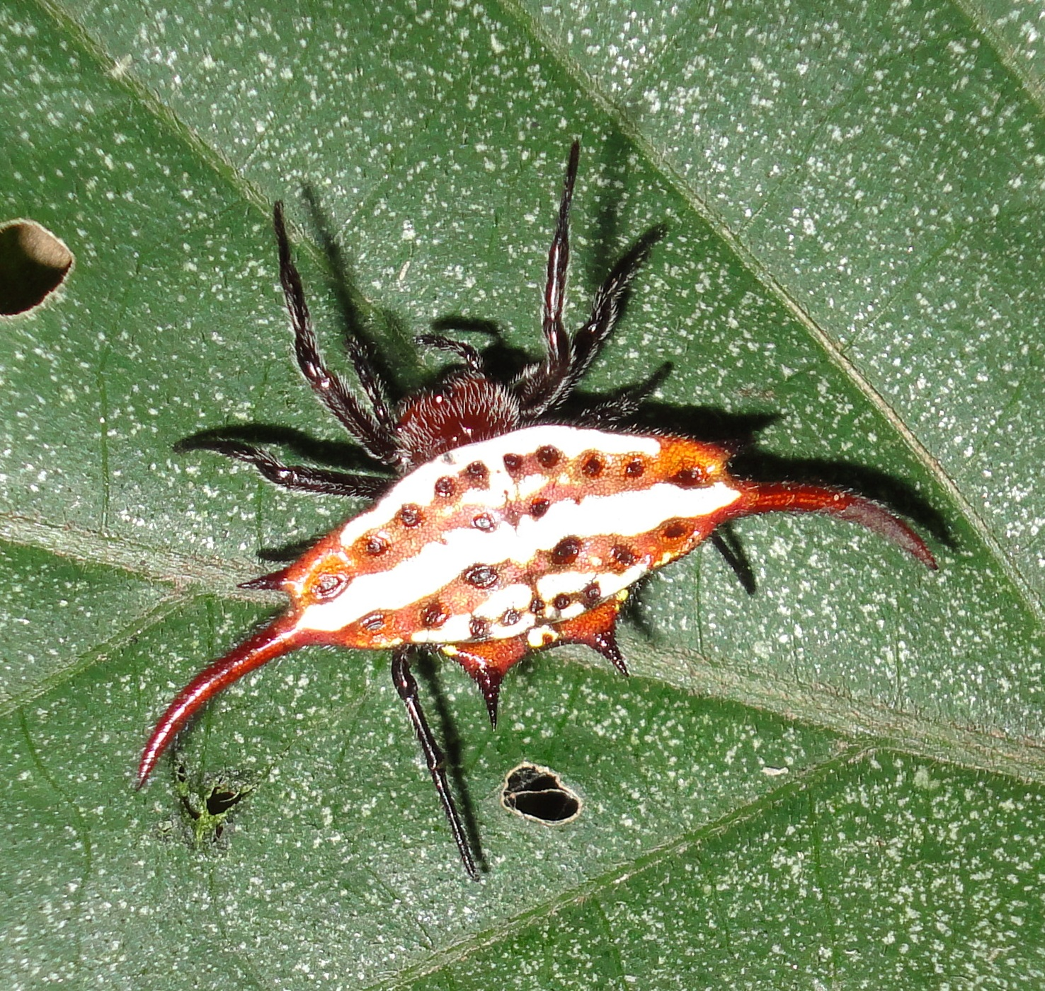 Long-winged kite spider in Burman Bush, Durban